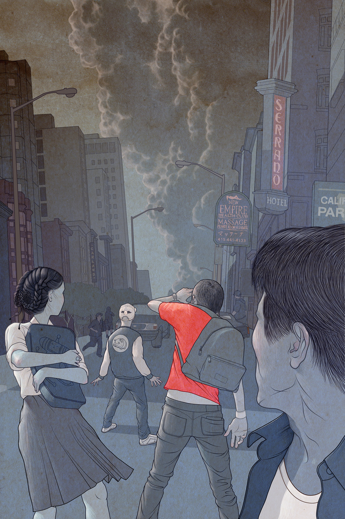 Richard Wilkinson original illustration for limited edition Little Brother (novel by Cory Doctorow) 05